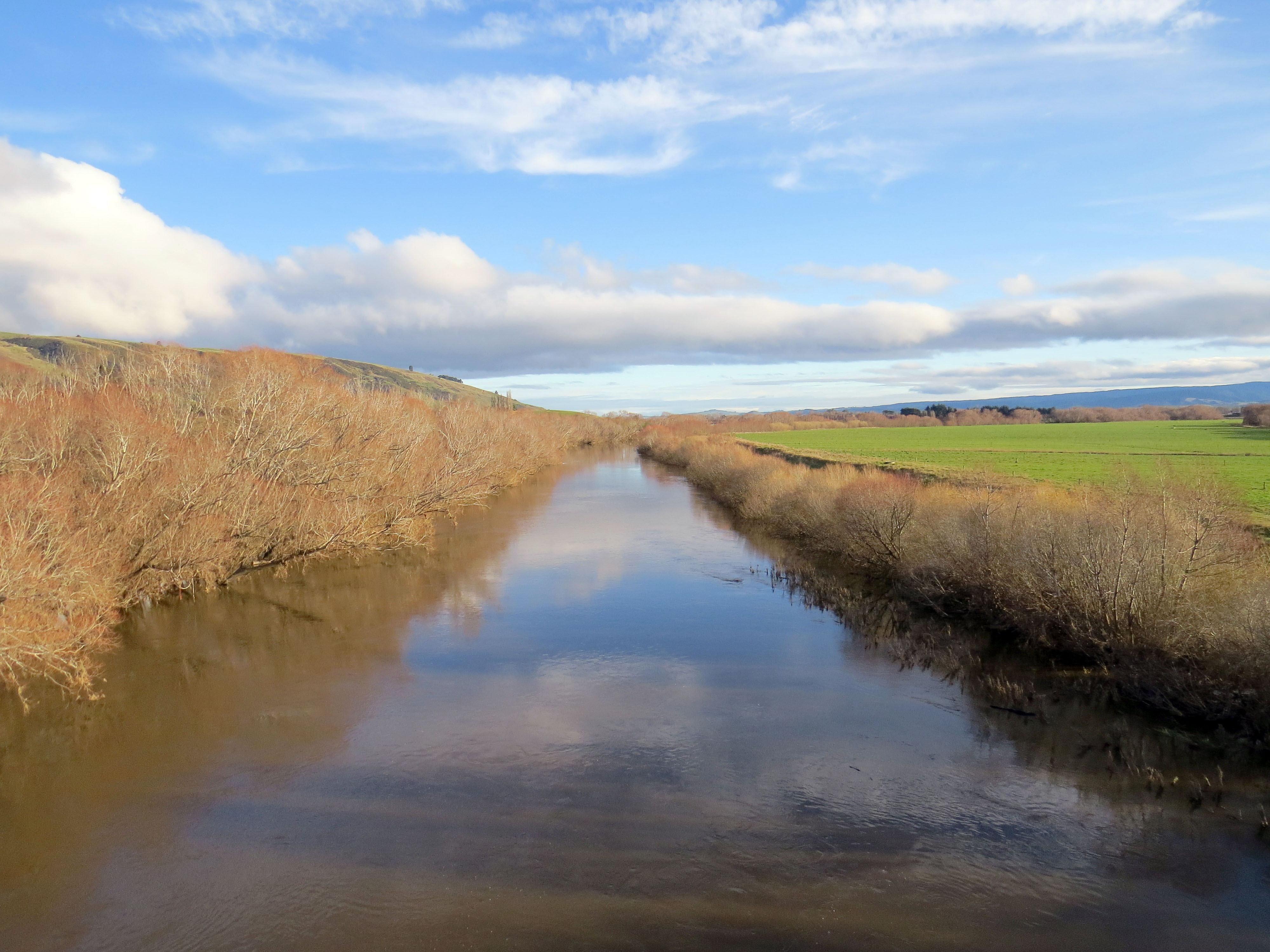 The Taieri River at Allanton, New Zealand. Photograph by James Dignan (User:Grutness)